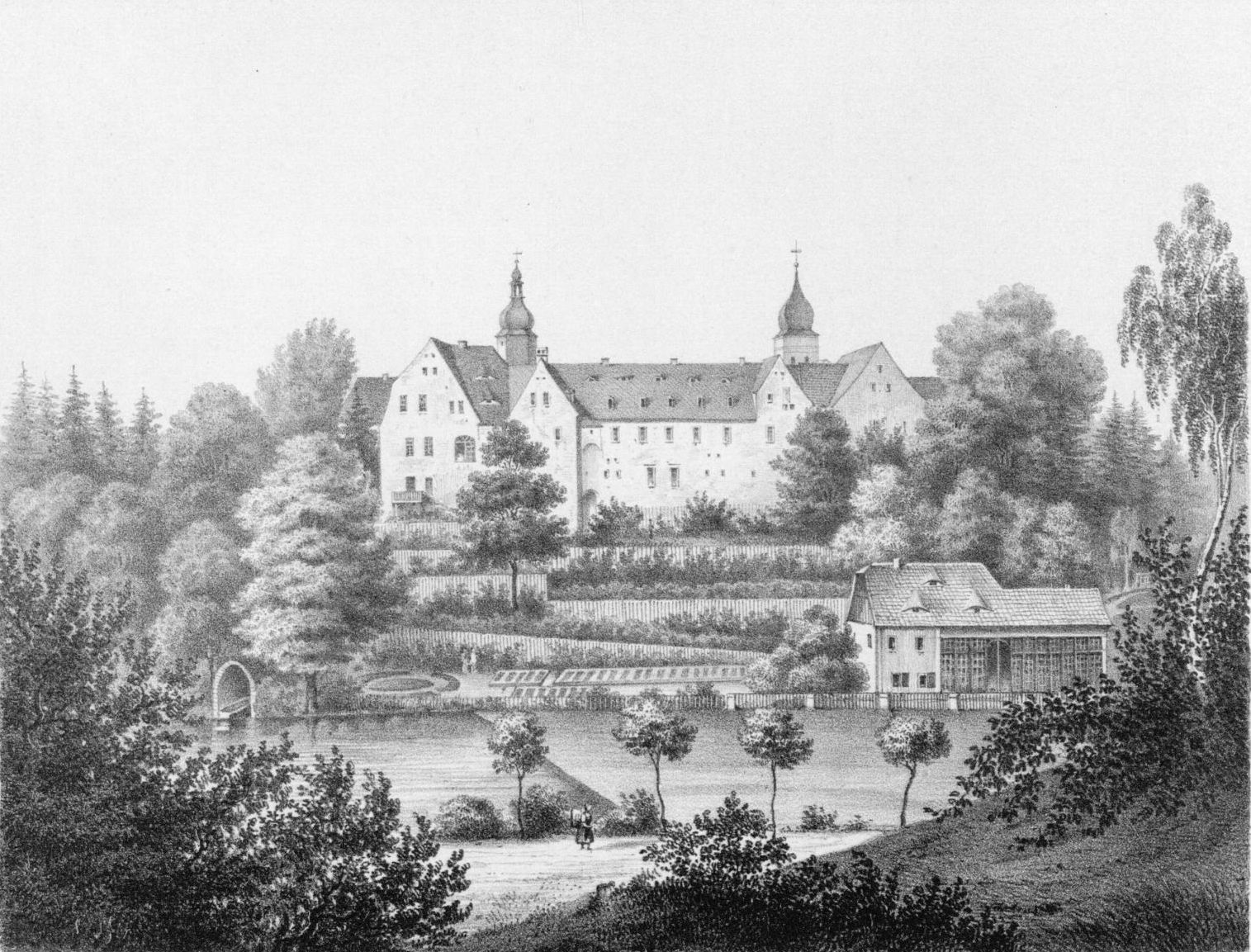 castle Pfaffroda in its estate of 1859